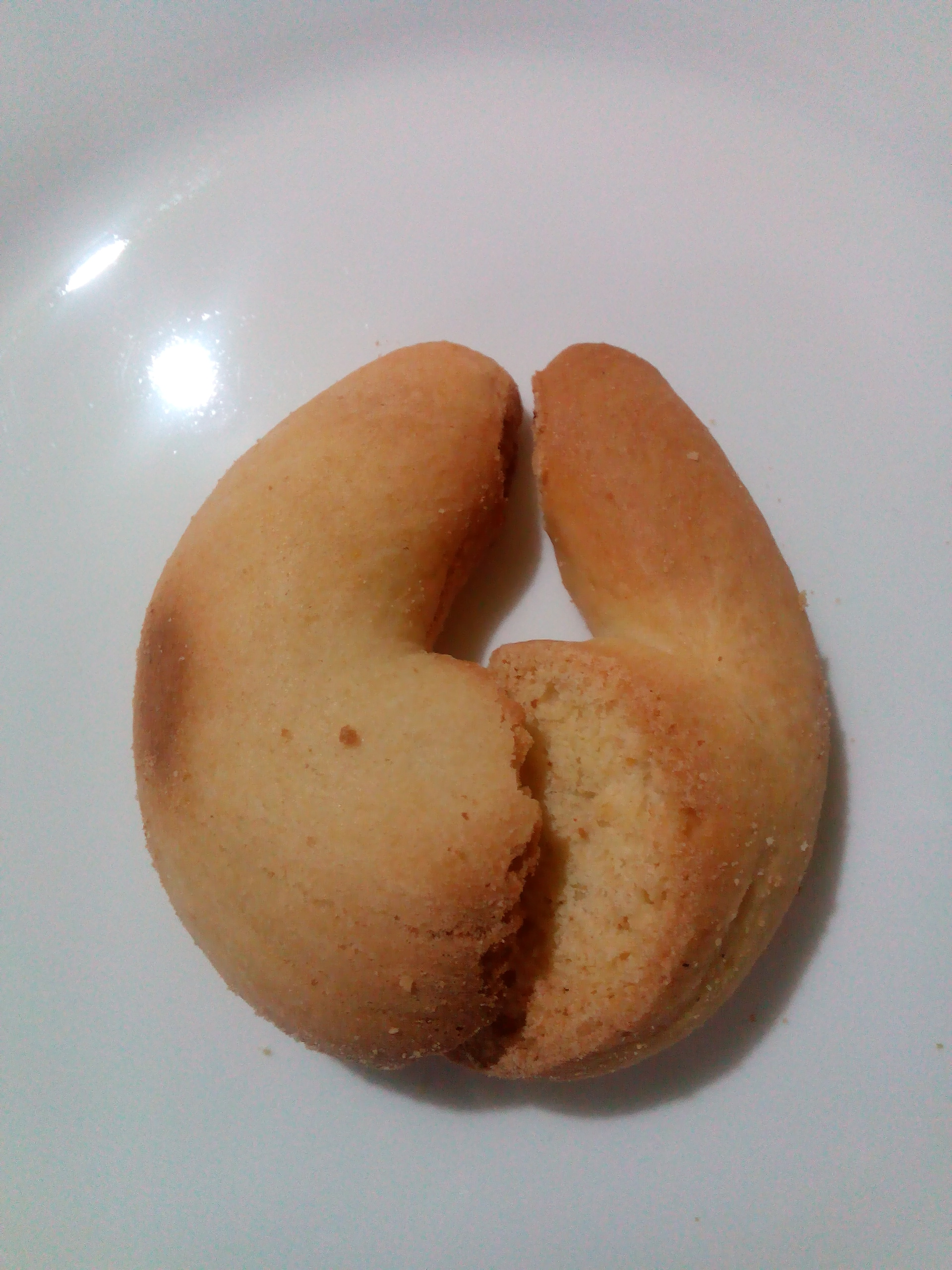 Two Leyte "roscas" (or rosca pieces) joined together on a plate for presentation. Each piece is so-called (roscas) likely as a corruption (or misuse) of the Spanish plural word roscas. Molded as a whole rosca (or ring) before baking, the Leyte rosca would traditionally be halved before it is pushed into the oven, thus complicating the use of the plural Spanish word in referring to what would actually just be a half of the Leyte rosca.